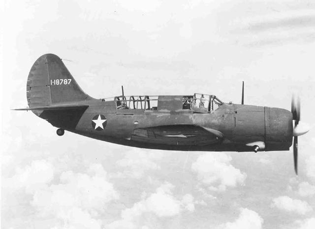 Curtiss A-25A-5-CS Shrike (Serial Number: 41-18787).